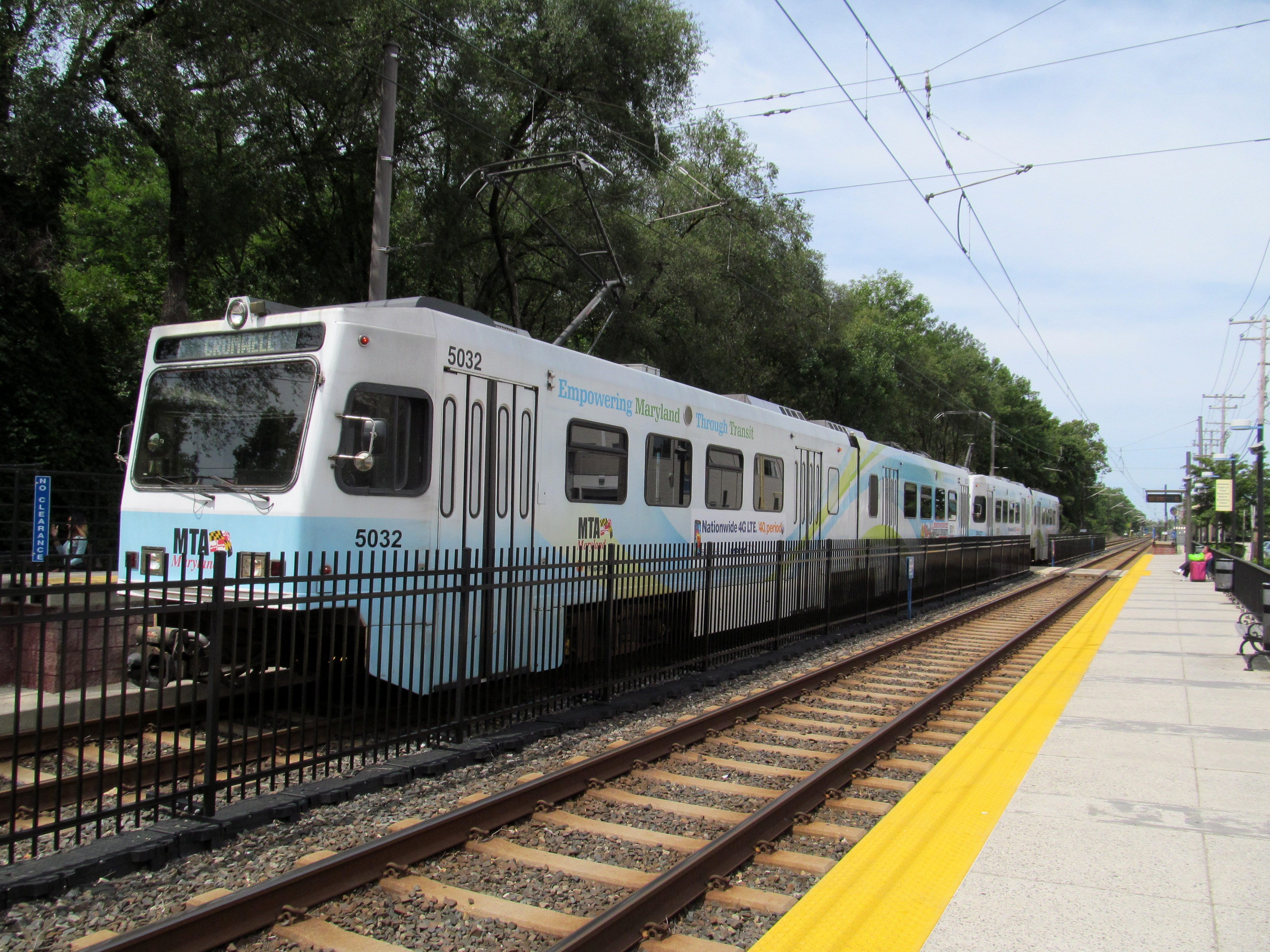 Southbound train at Lutherville station in August 2014